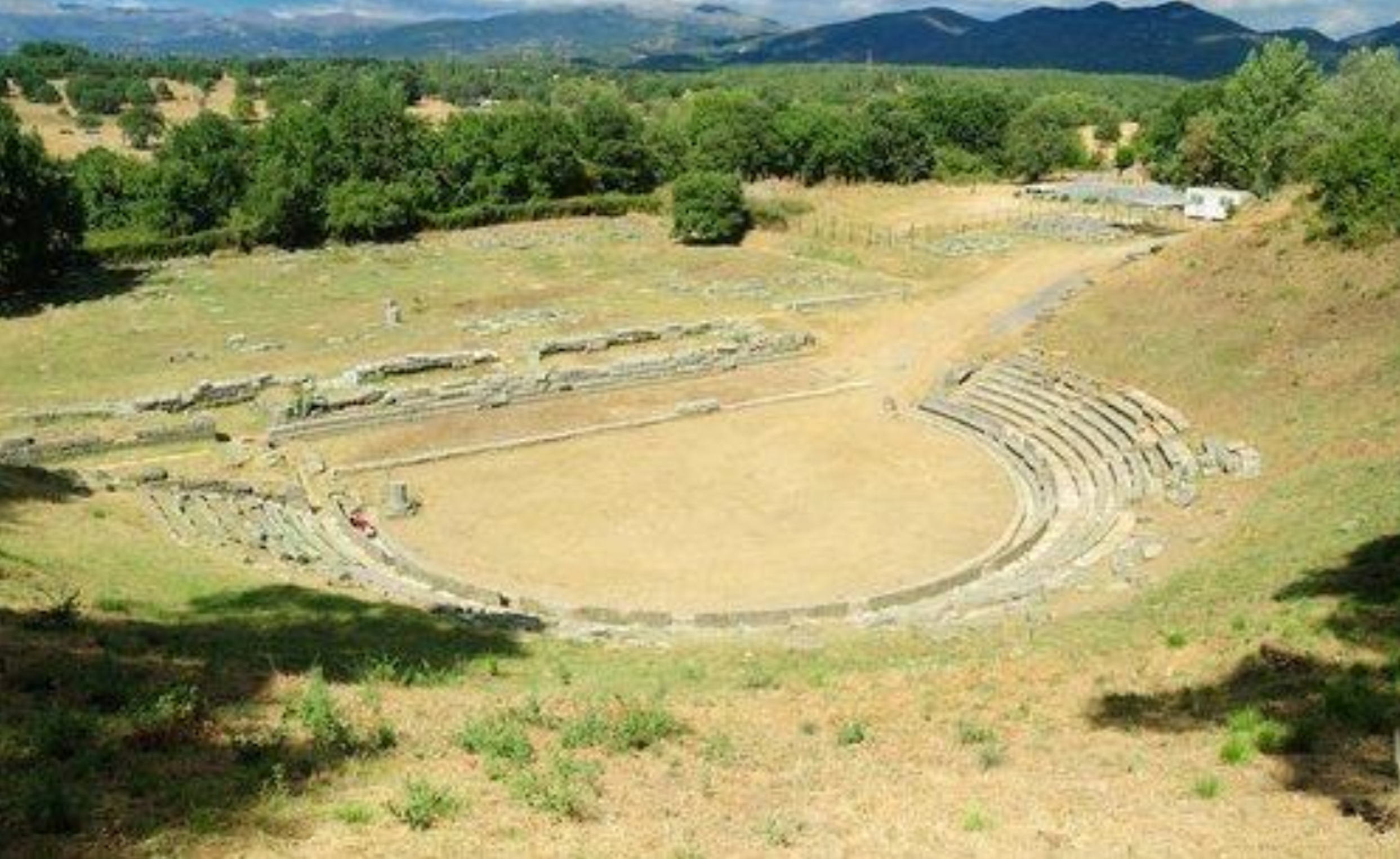 Megalopolis theater 370 BCE